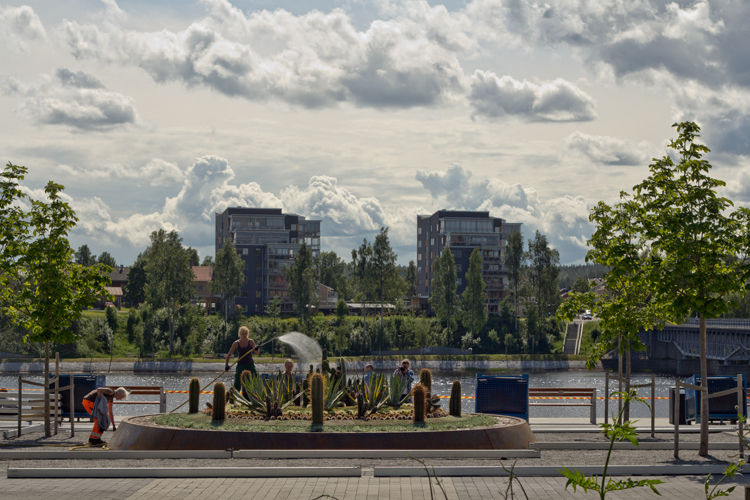 Skellefteå river seen from stadsparken.